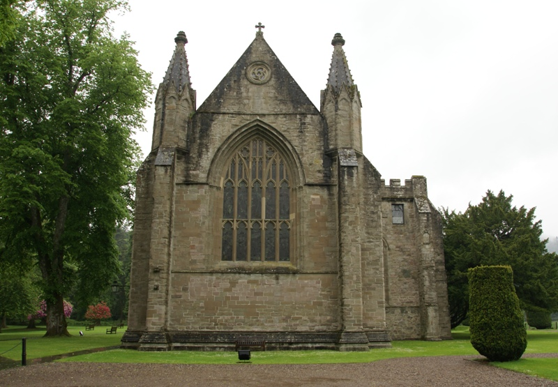 Dunkeld Cathedral, Dunkeld, Perth and Kinross, Scotland - choir (current parish church) exterior from the east